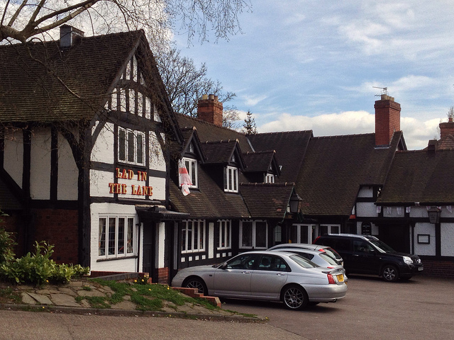 Photograph of the Lad In The Lane Pub in Birches Green / Erdington